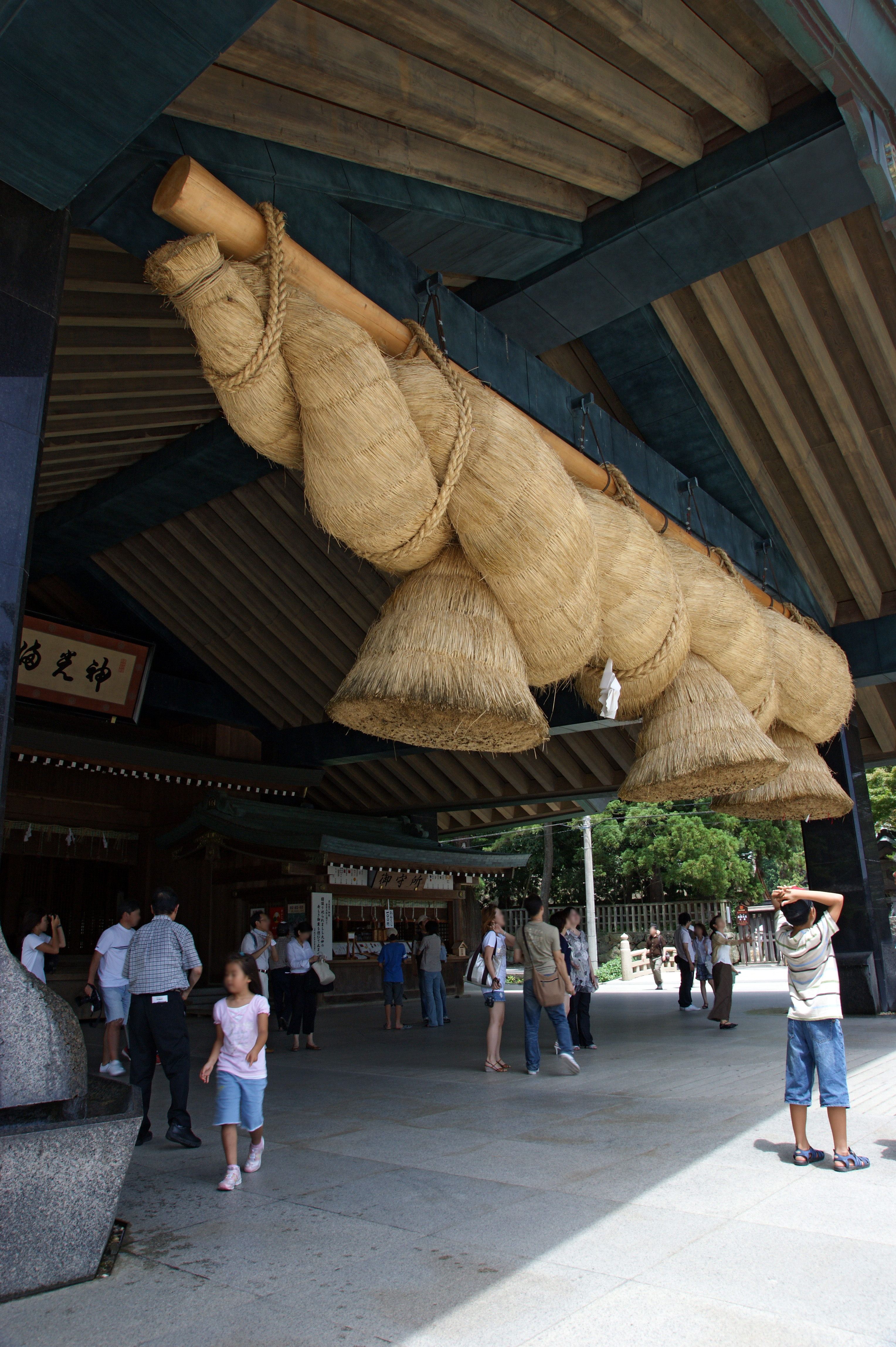 Izumo Taisya, Izumo, Shimane prefecture, Japan